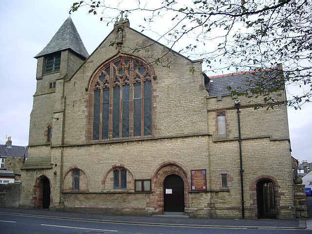 St Catherine's parish church, Todmorden Road, Burnley, Lancashire, seen from the southwest